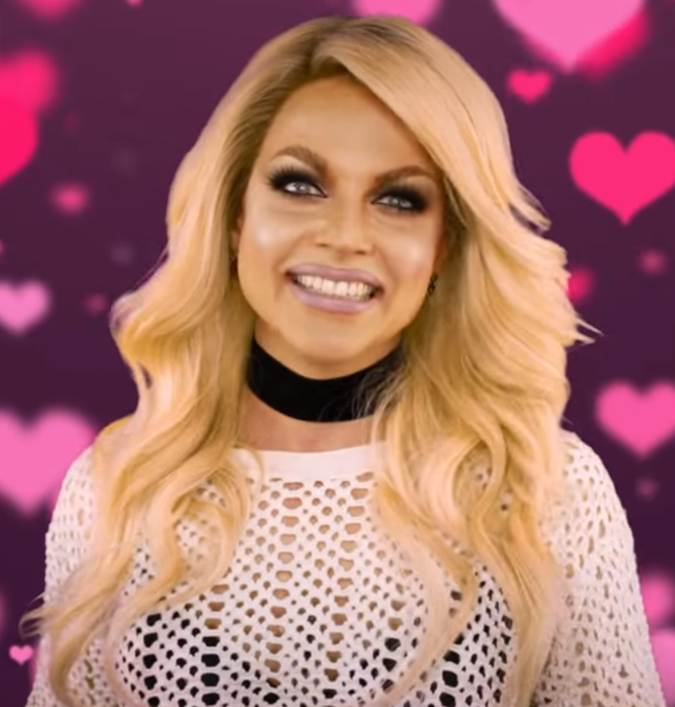 Courtney Act in 2017 for MTV International.